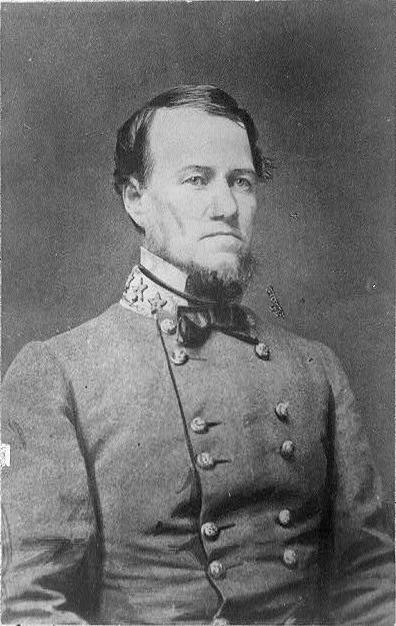 Gustavus Woodson Smith, 1822-1896, Major General, CSA, Library of Congress Prints and Photographs Division